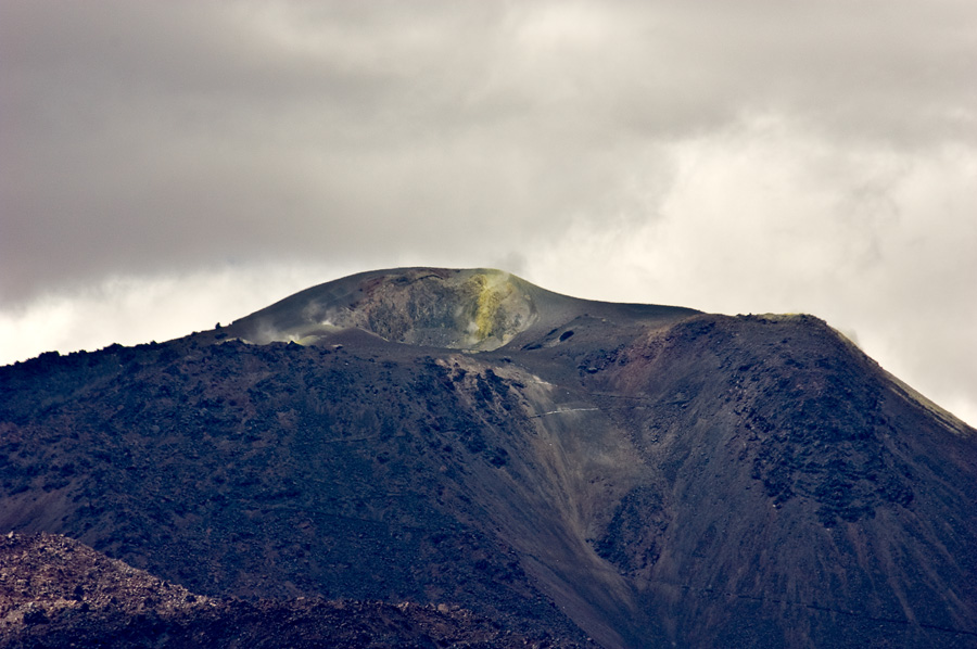 Fumaroles on the summit and a solfatara in the crater of the Putana volcano. Chile - II Region.